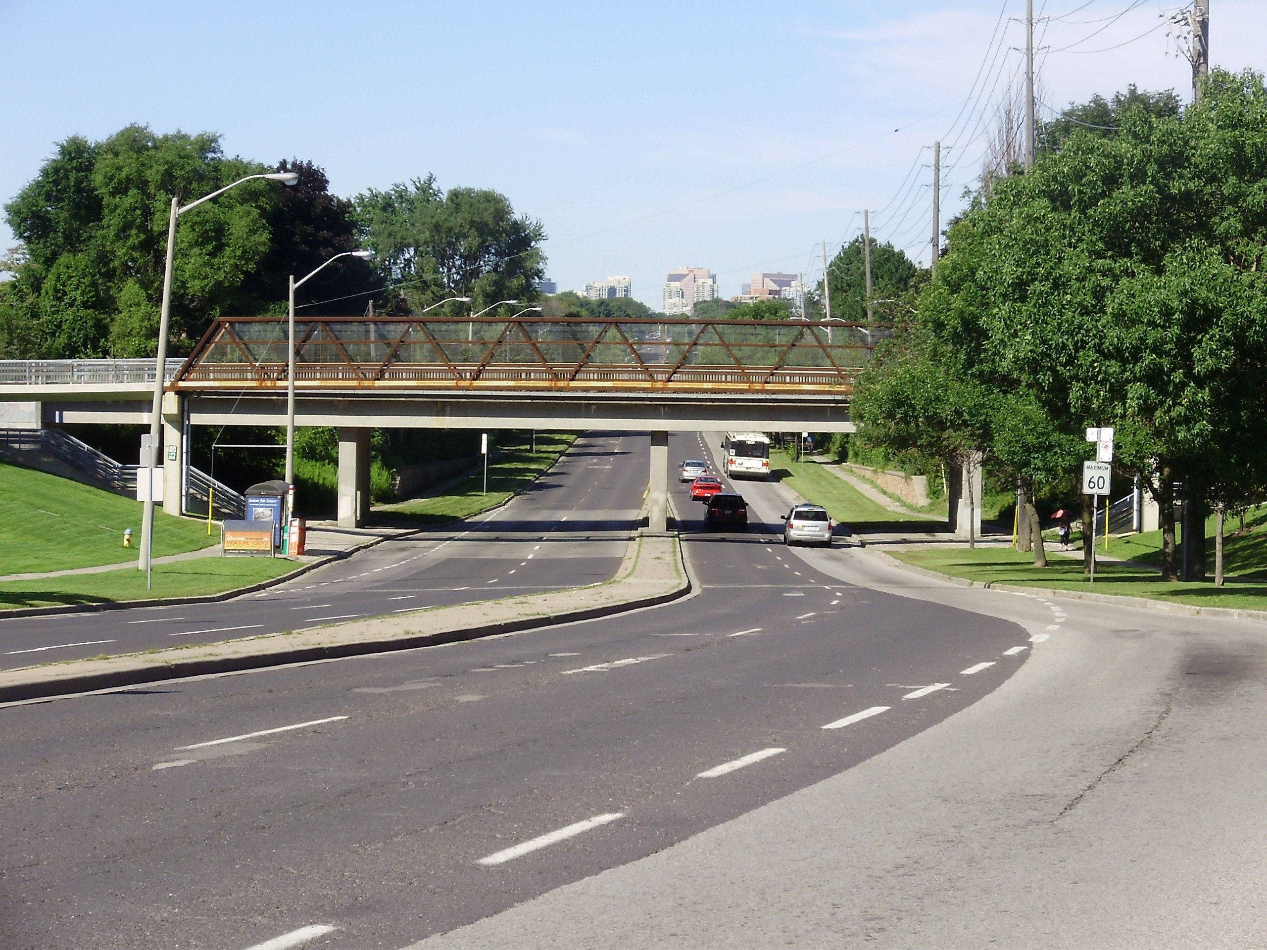 Just west of Leslie Street, Finch Avenue East dives beneath a railway overpass leading to Old Cummer GO Station in North York, Ontario, Canada.